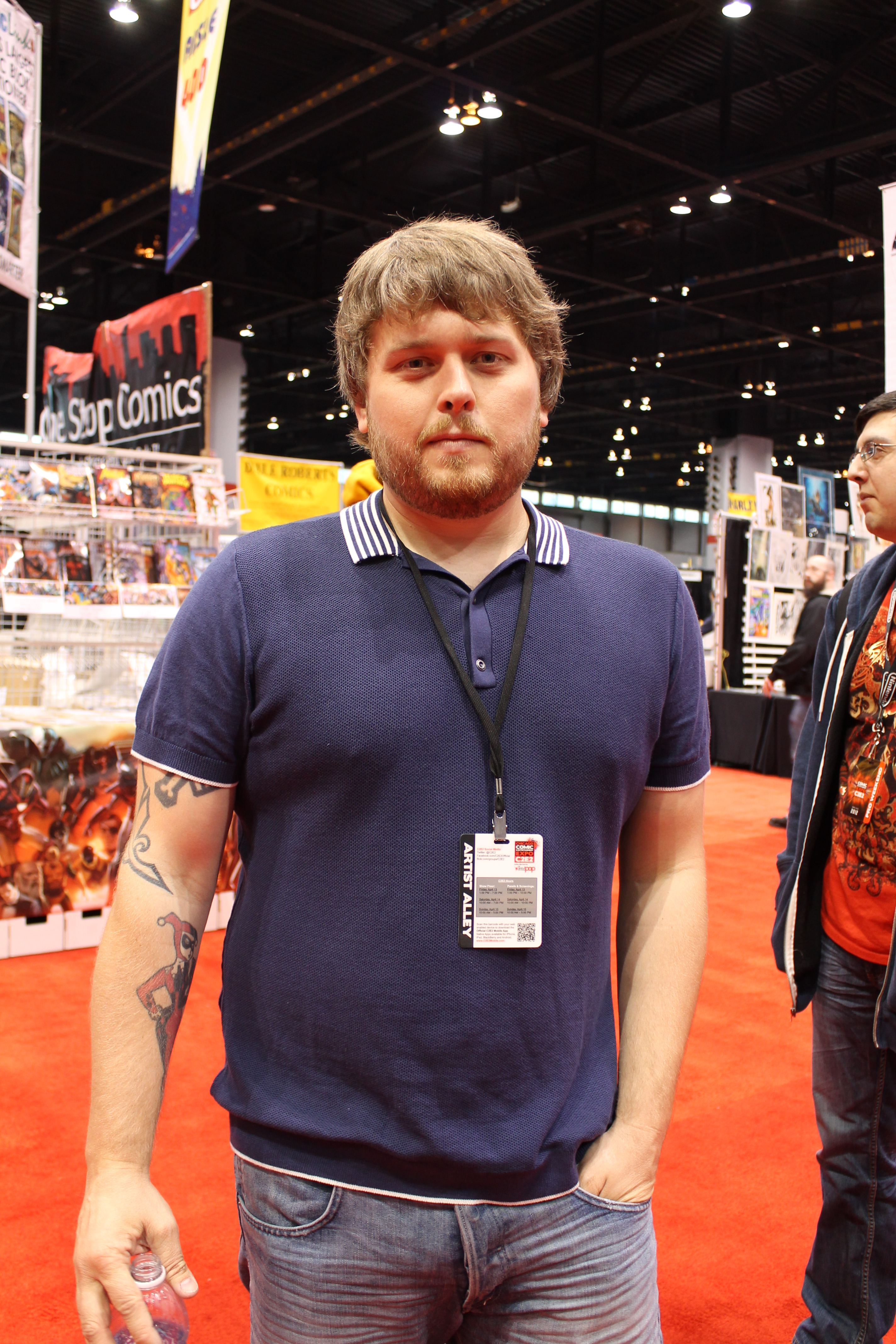 This image or comics writer Dennis Hopeless was taken by Pat Loika at the 2012 Chicago Chicago Comic & Entertainment Expo.